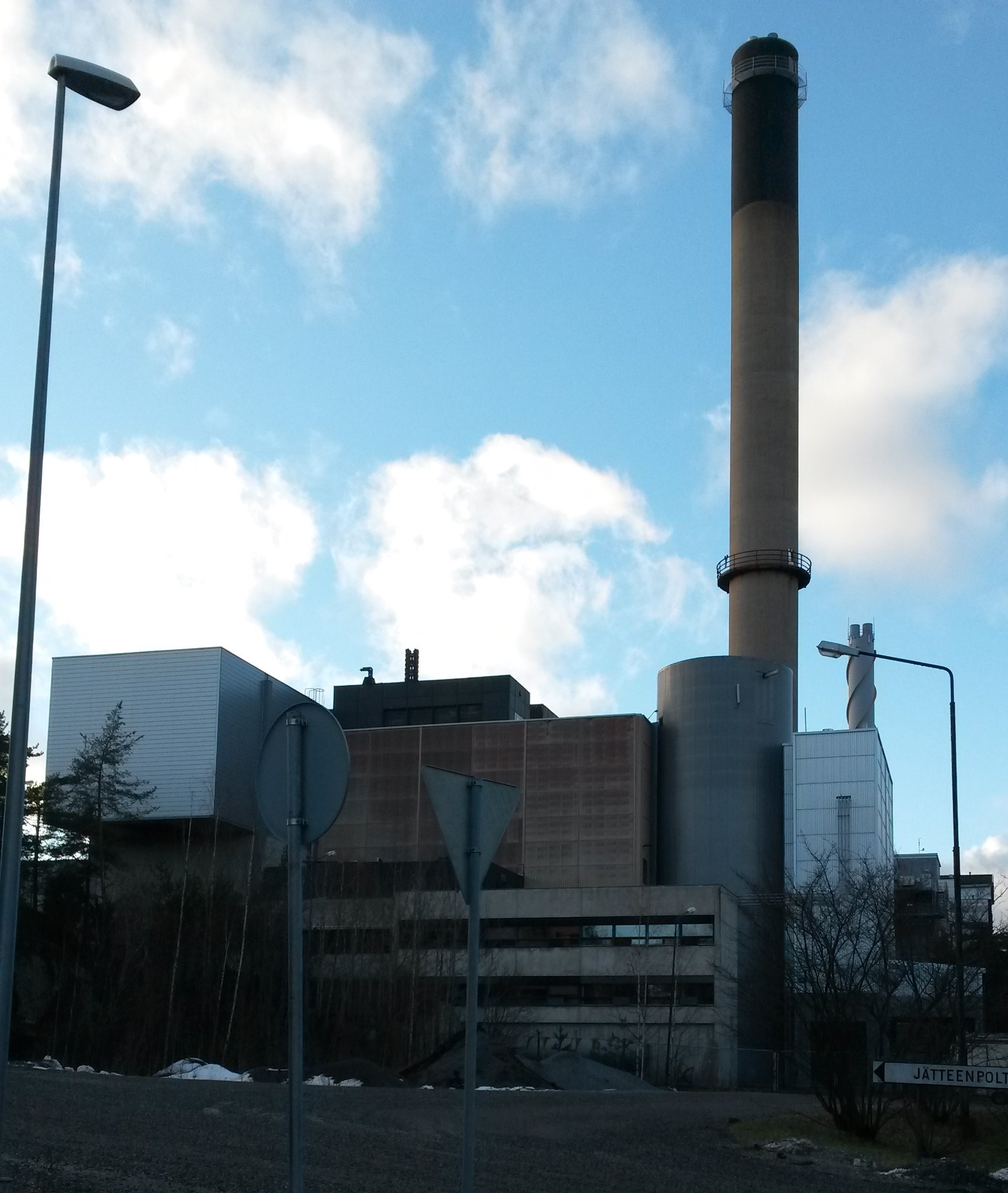 Waste Incinerator in Turku